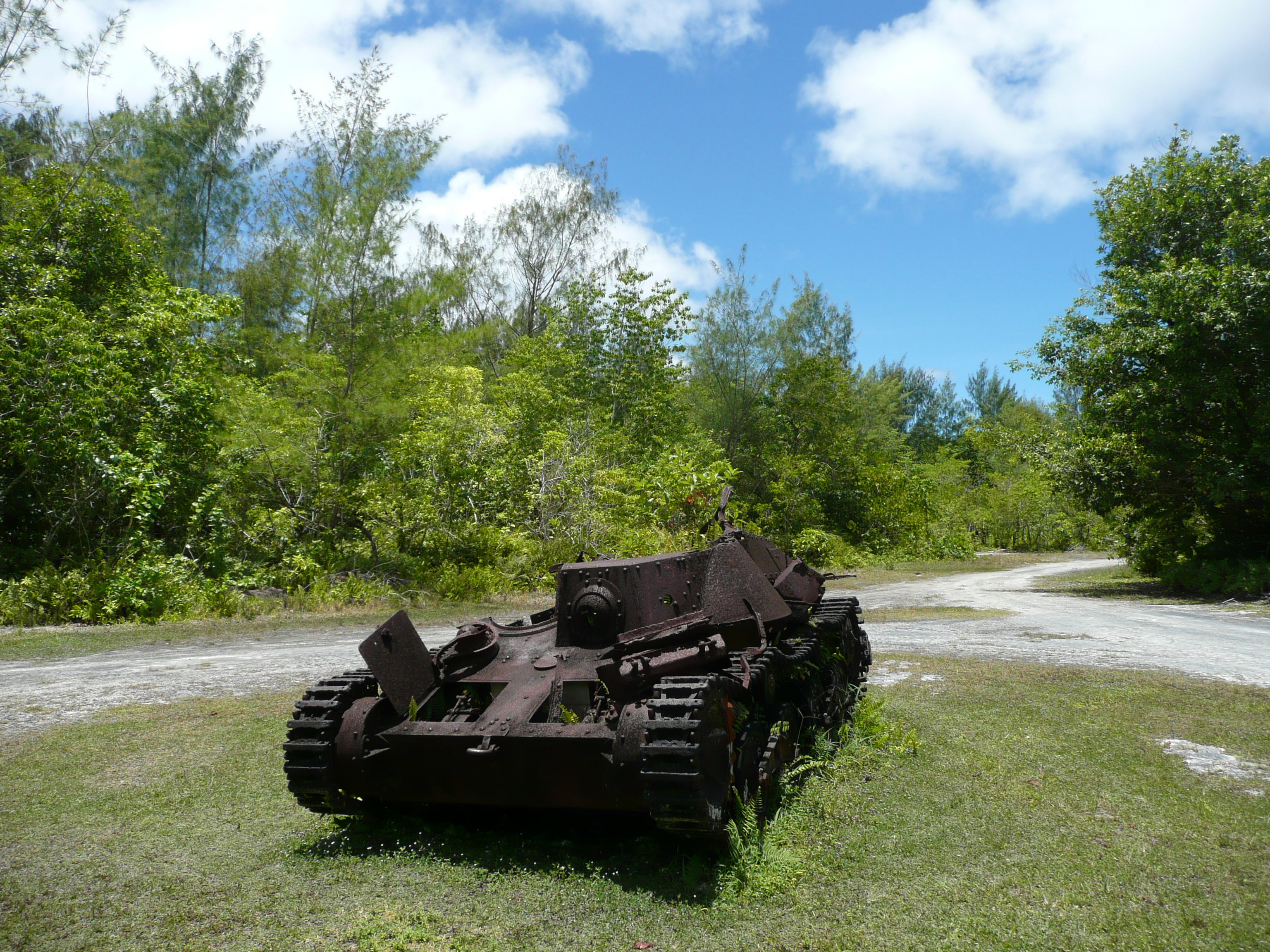 WWII Japanese tank Type 95 Ha-Go on Palau Island